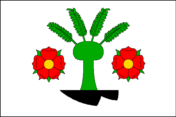 Municipal flag of Suchá Loz village, Uherské Hradiště District, Czech Republic.